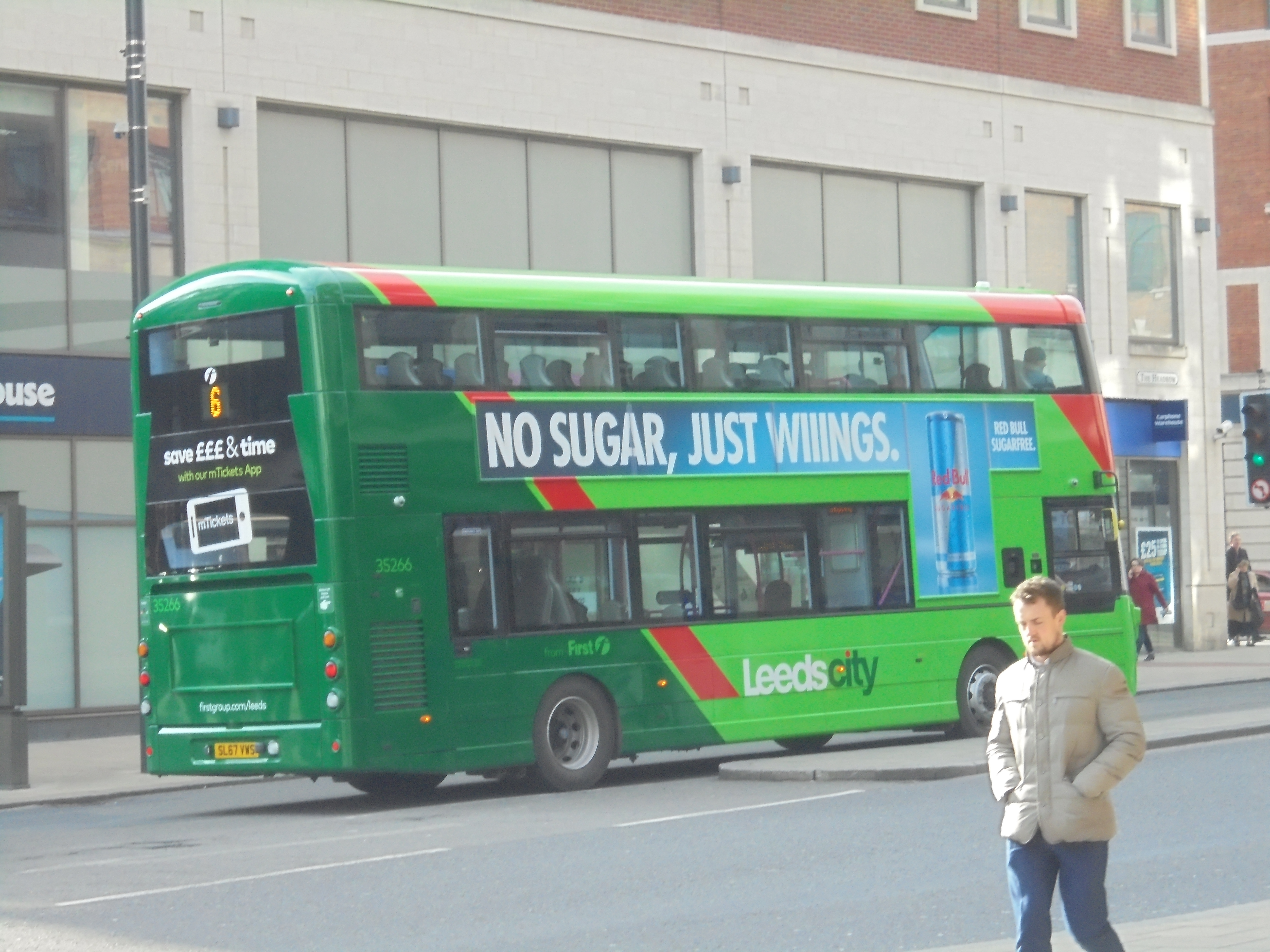 First Leeds bus in green livery on the Headrow, Leeds, West Yorkshire. Taken around midday on Thursday the 22nd of February 2018.